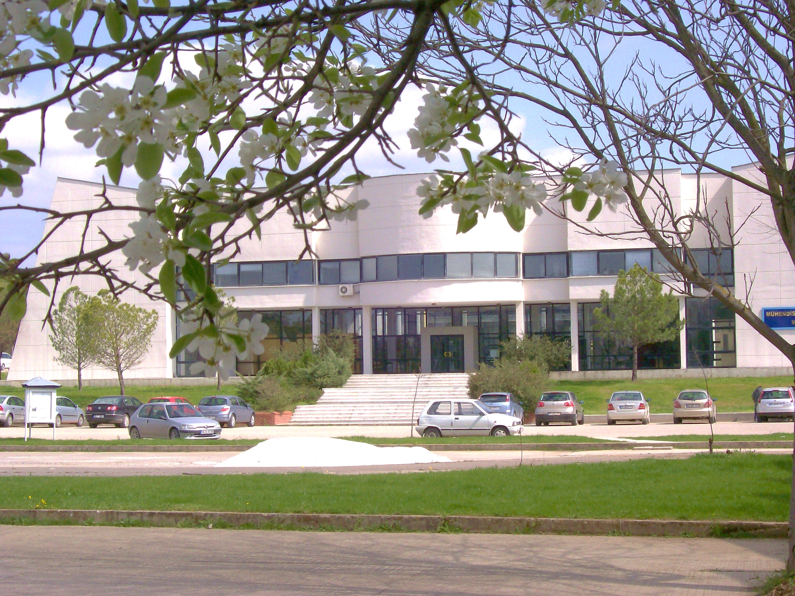 Architecture Faculty in Uludağ University